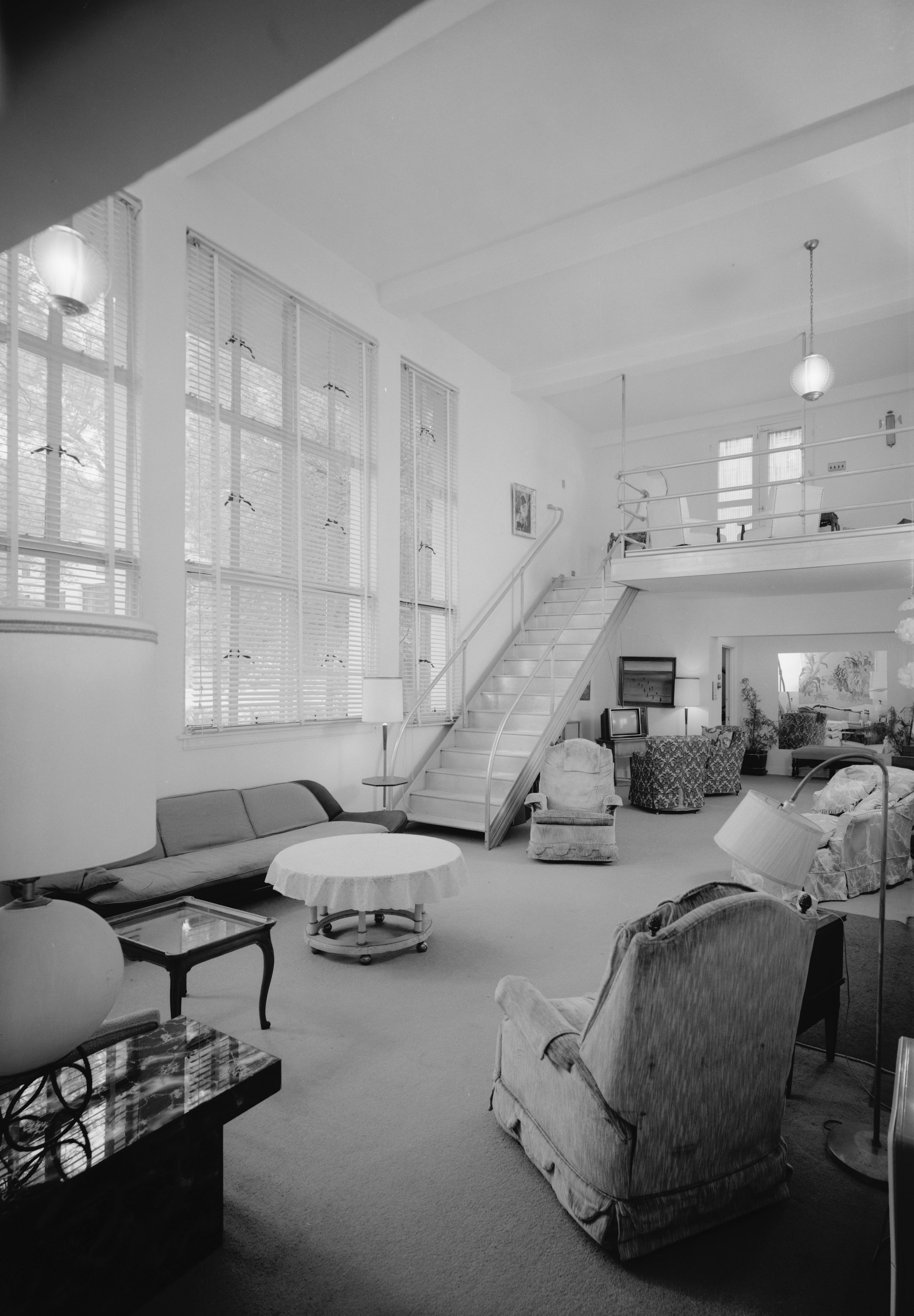 Florida Tropical House; one of the 1933 Homes of Tomorrow Exhibition. Original caption: "Interior, general view of center room from northeast."